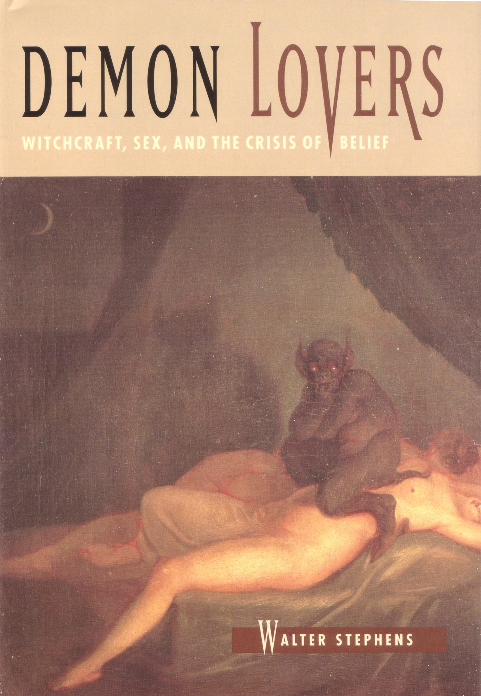 Cover of the book "Demon Lovers", by Walter Stephens.